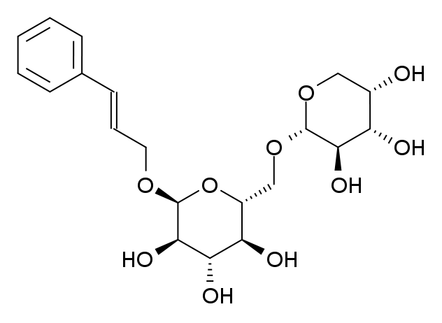 Structure of rosavin